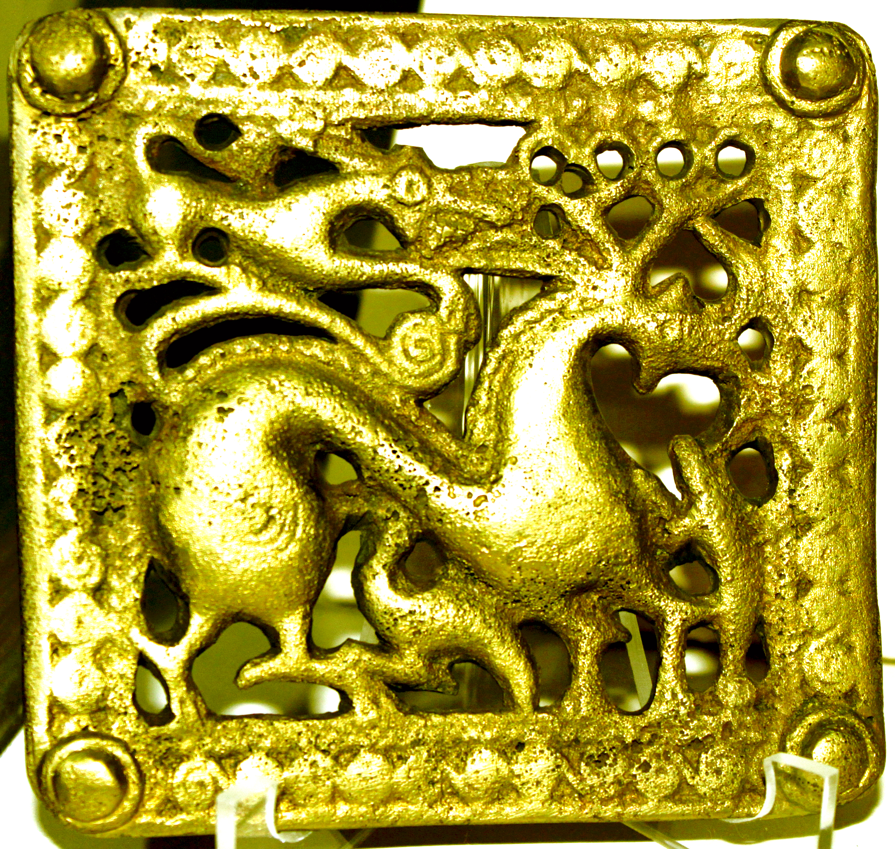 Gold scythian belt title from Mingachevir